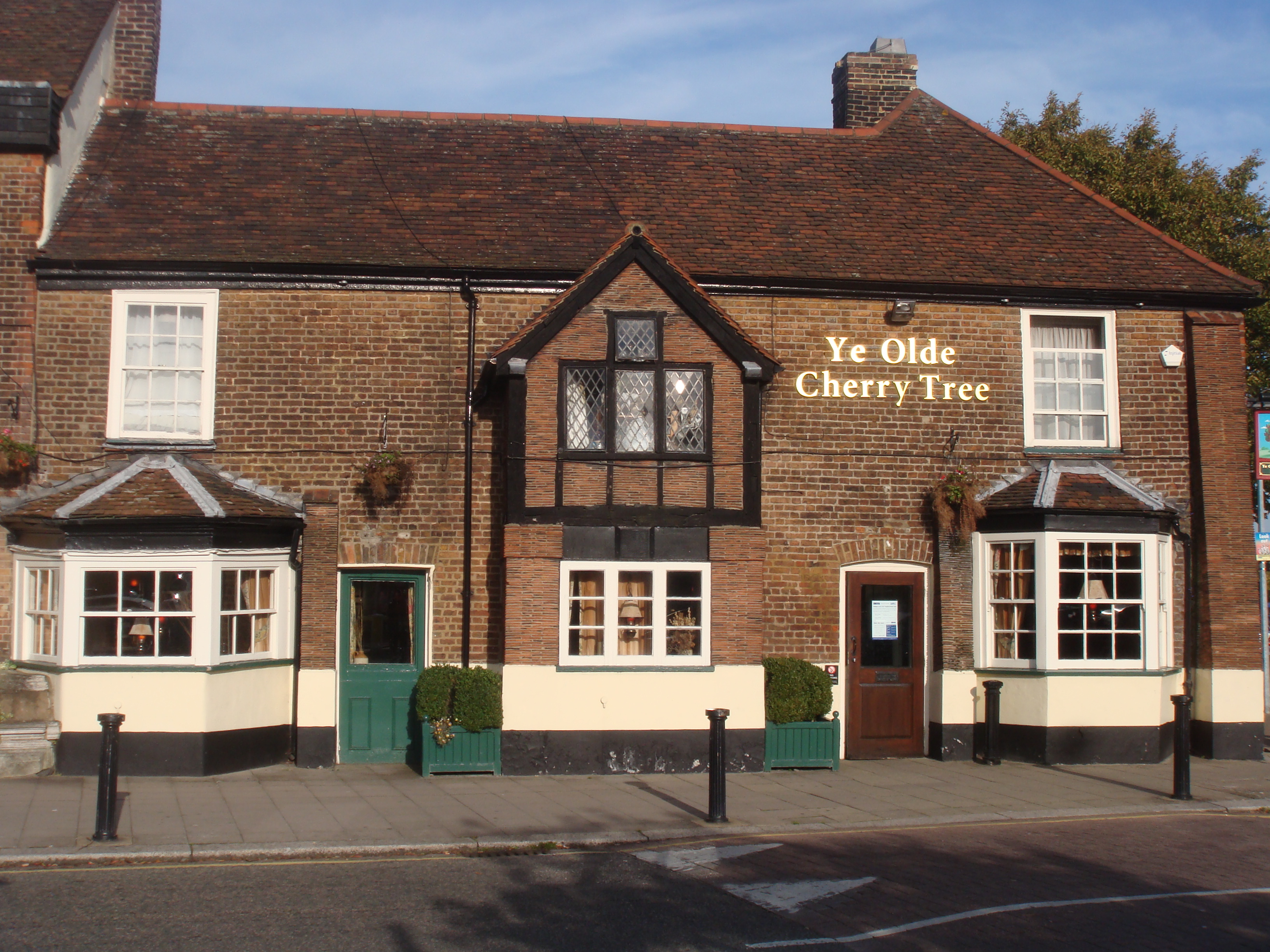 The pub called Ye Olde Chery Tree, one of the oldest buildings in Southgate, London.